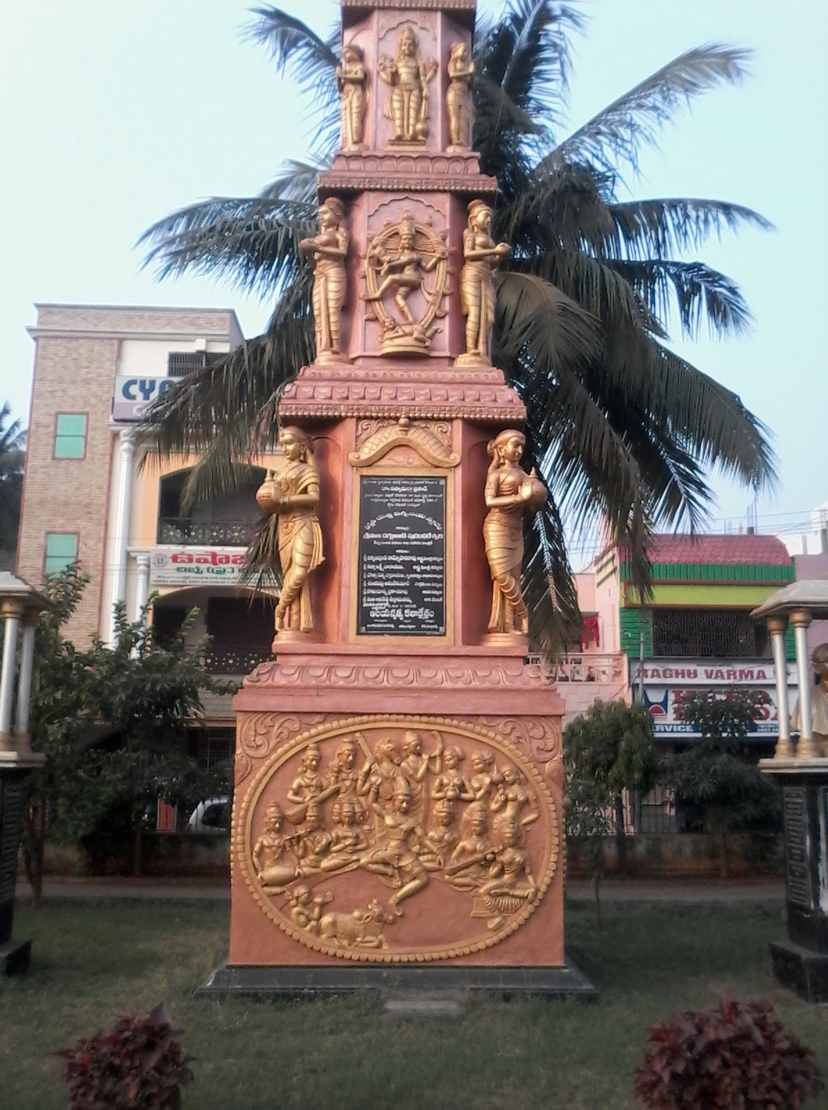 Temple dance statues, alaya nrutya kala kshetram, rajahmundry